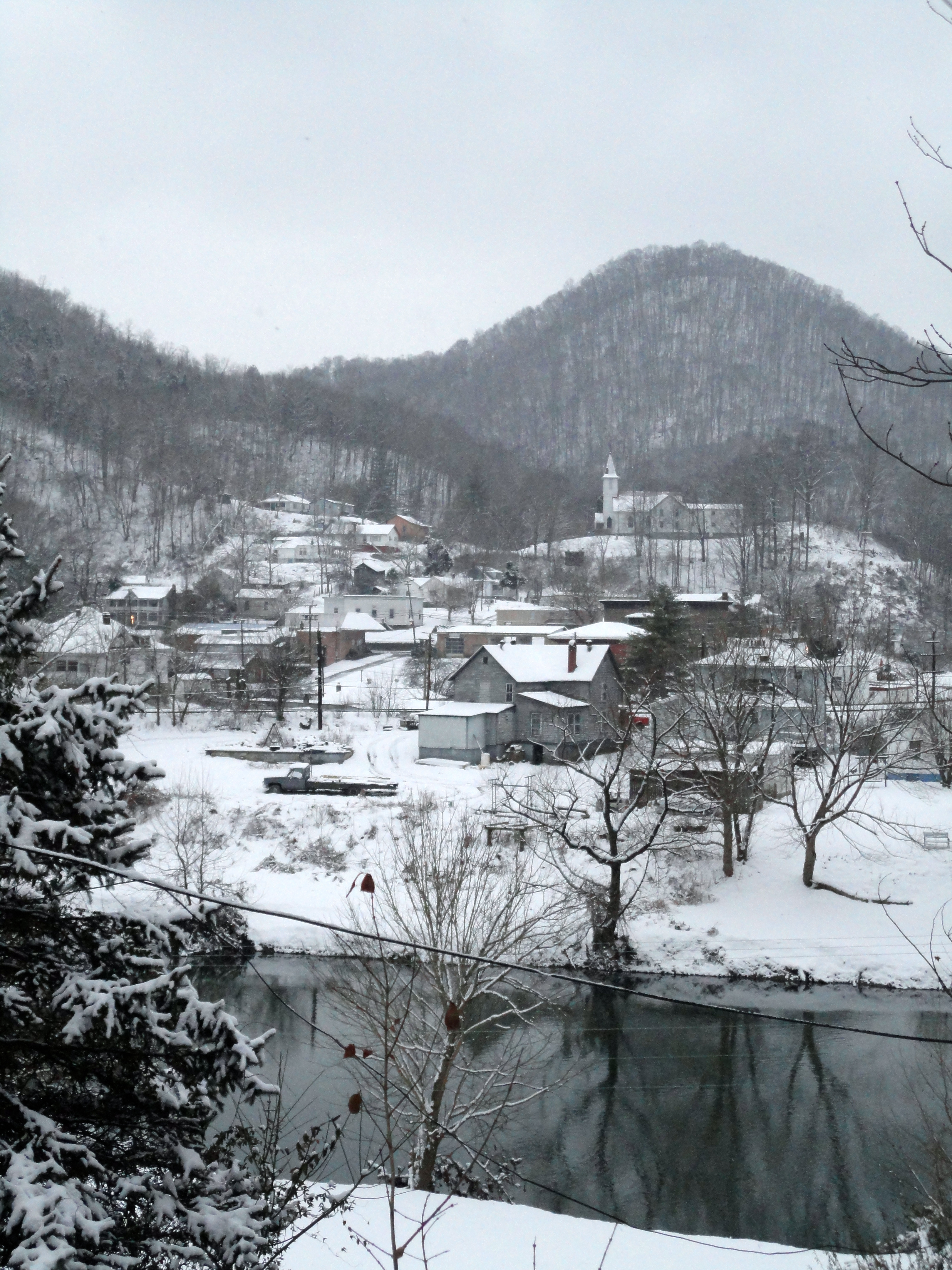 Cleveland, Virginia as seen from Artrip Road